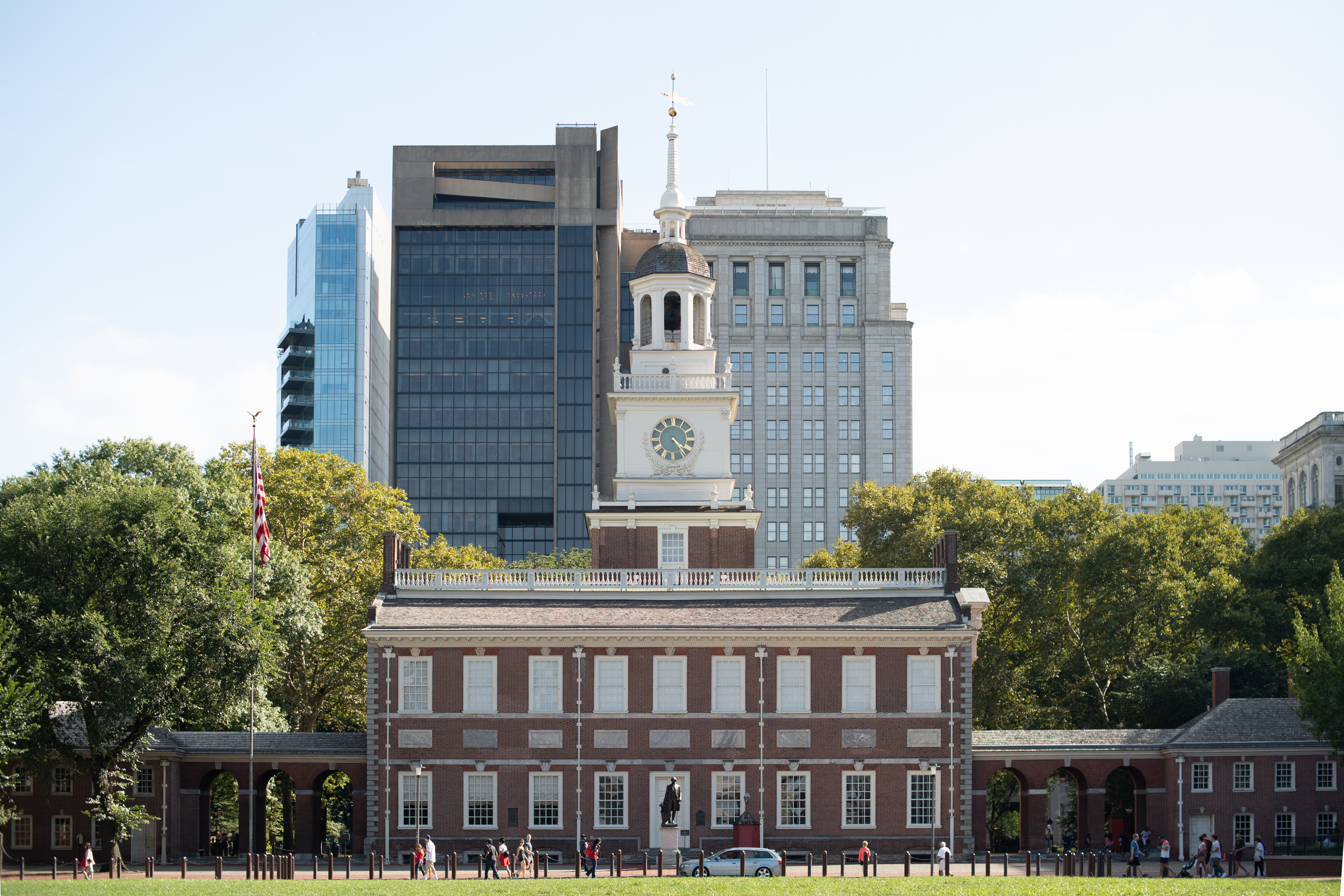 The north side of the Independence Hall, August 2019